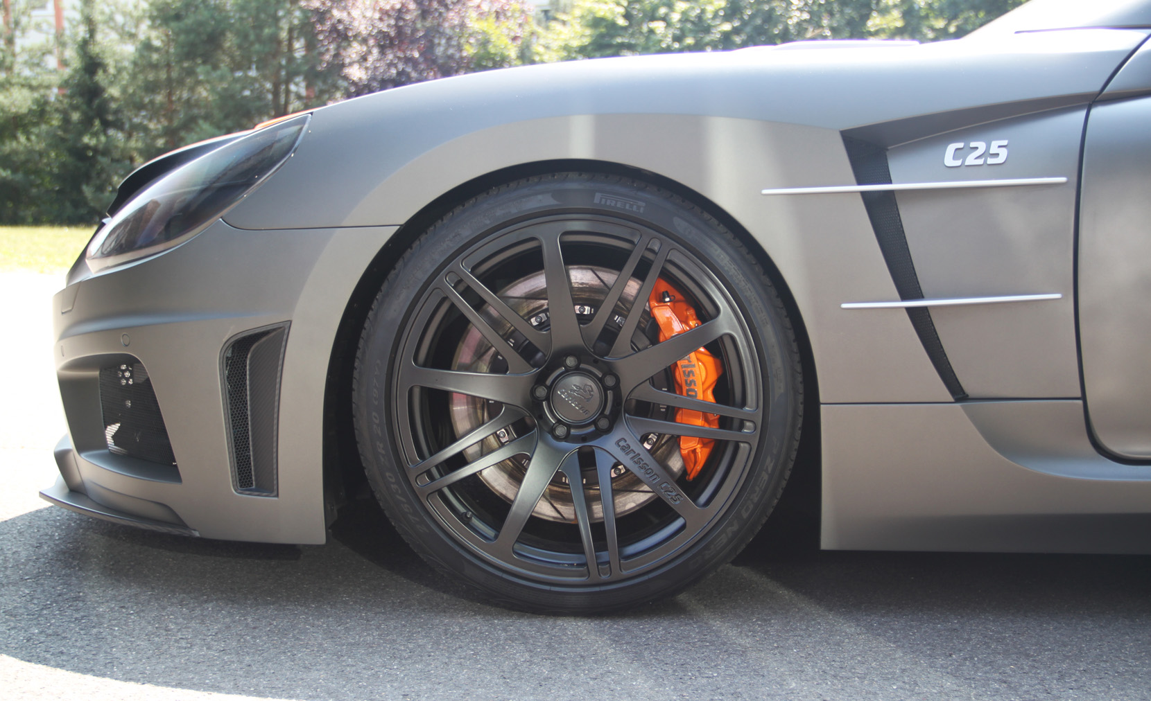 The C25's forged Carlsson light alloy wheel 1/10 UL, behind the massive brake system